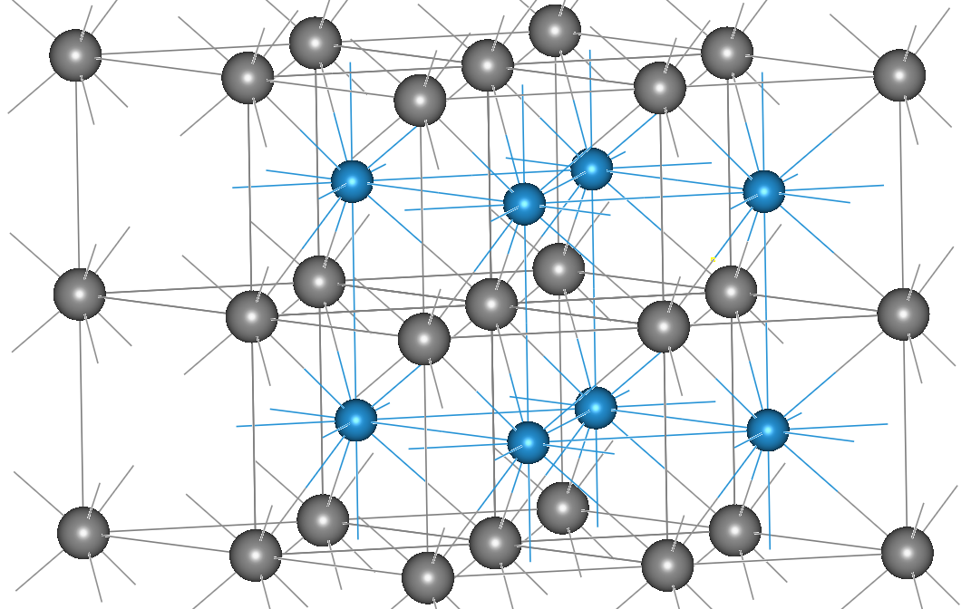 alpha WC (hexagonal tungsten carbide)